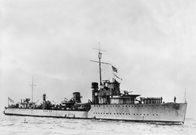 C. 1940. STARBOARD SIDE VIEW OF THE DESTROYER HMAS VAMPIRE.